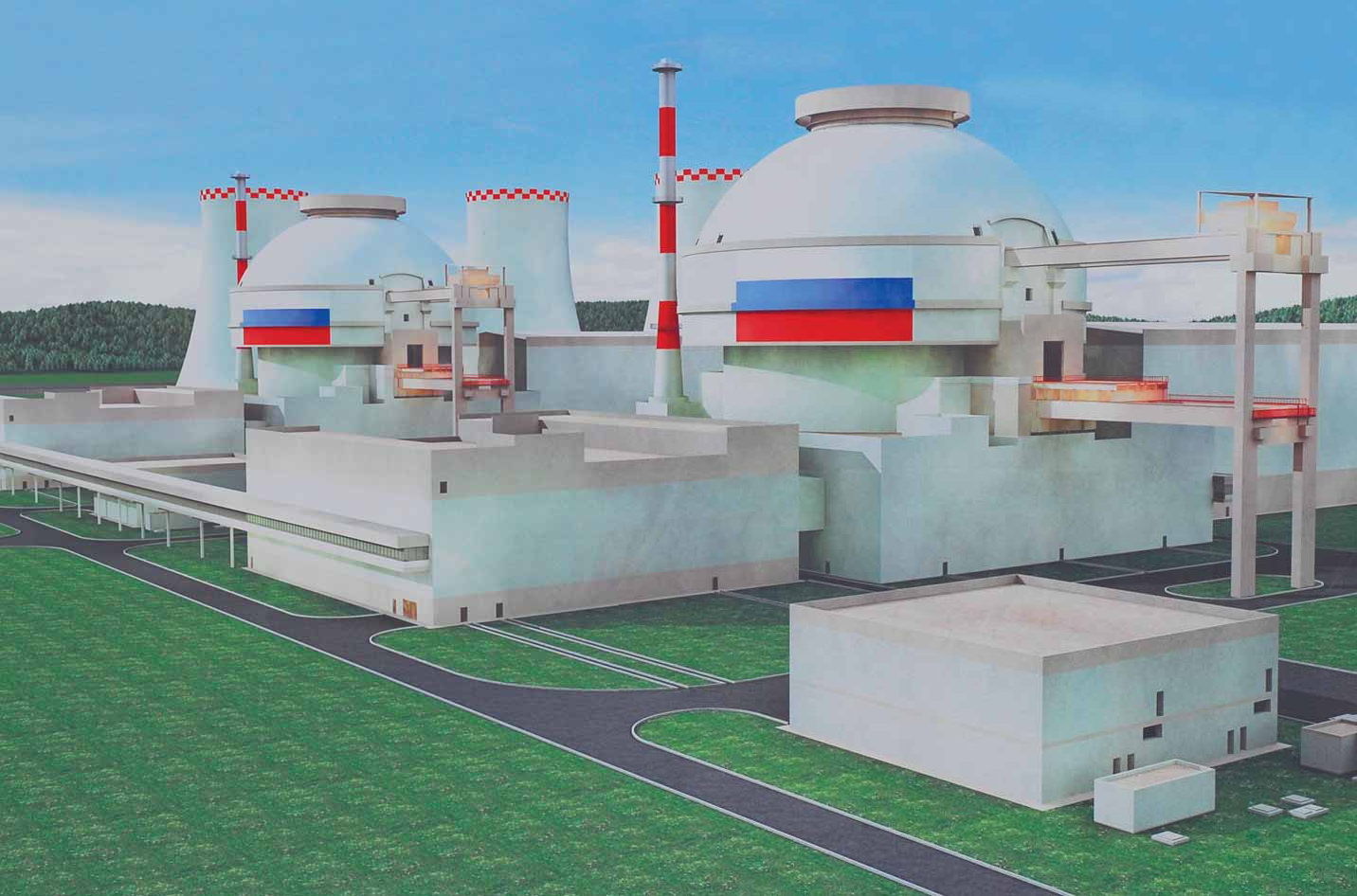 Former concept of the Novovoronezh Nuclear Power Plant II with two VVER-1200/392M as AES-2006